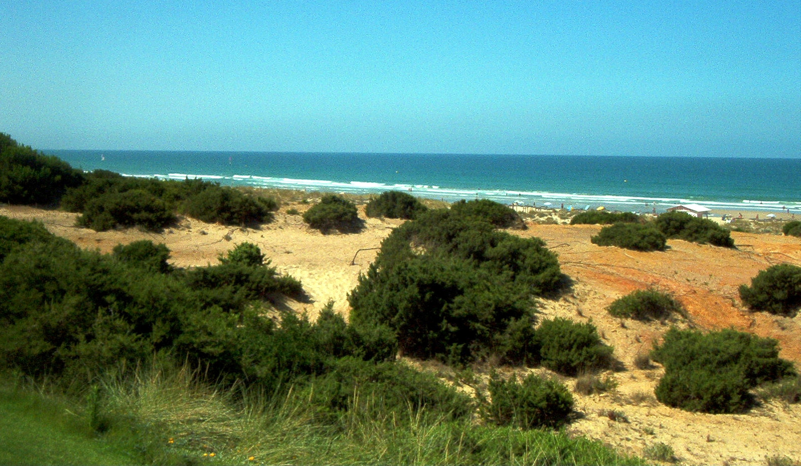 Coast in Novo Sancti Petri near Chiclana, Cádiz, Spain